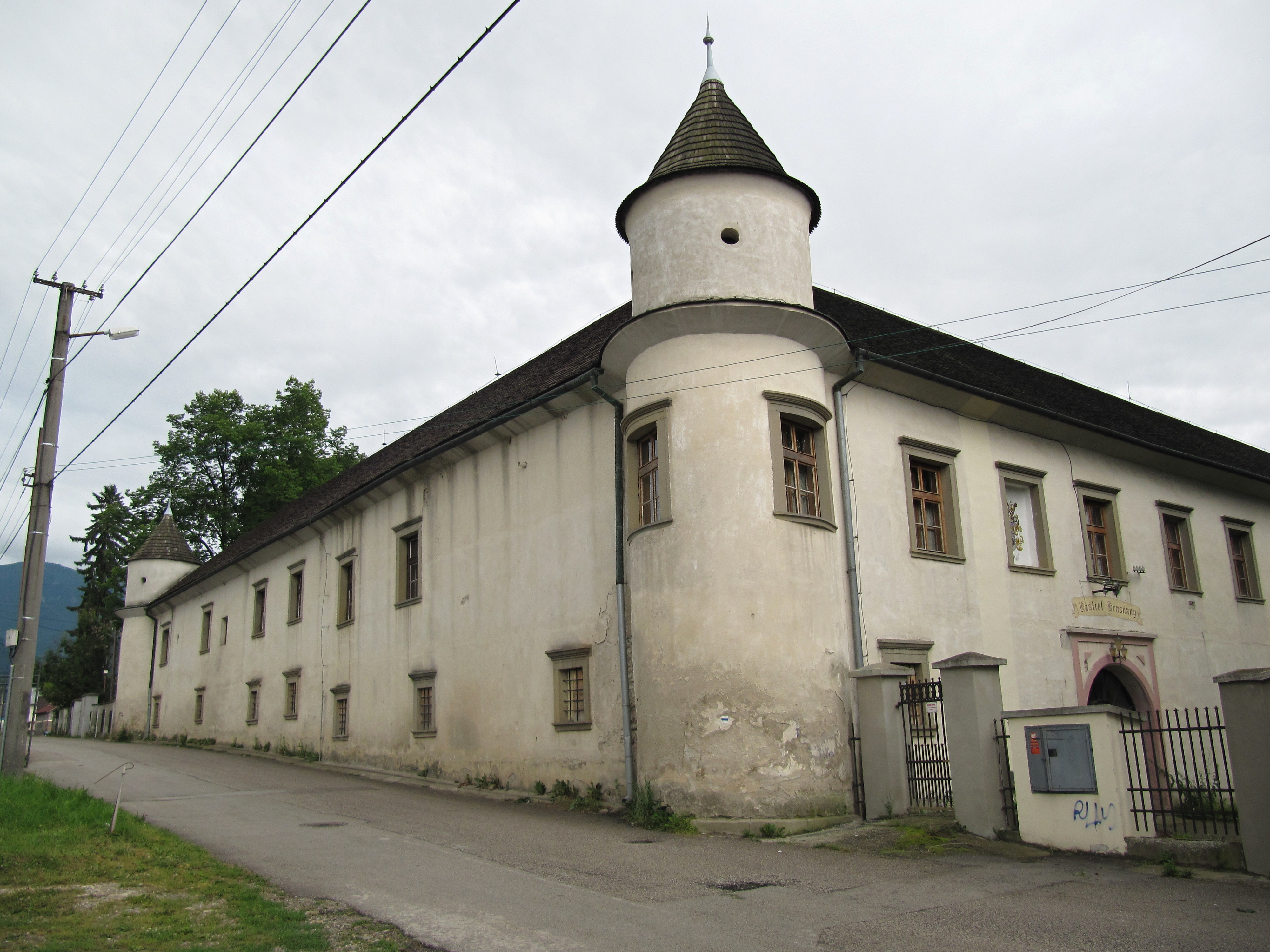 Krasňany